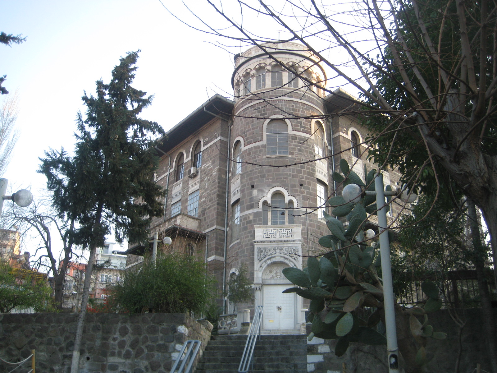 A picture of the Izmir Ethnography Museum (İzmir Etnografya Müzesi) from the courtyard.